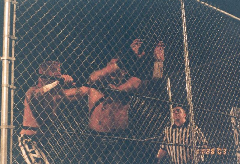 CM Punk in a cage match with Raven